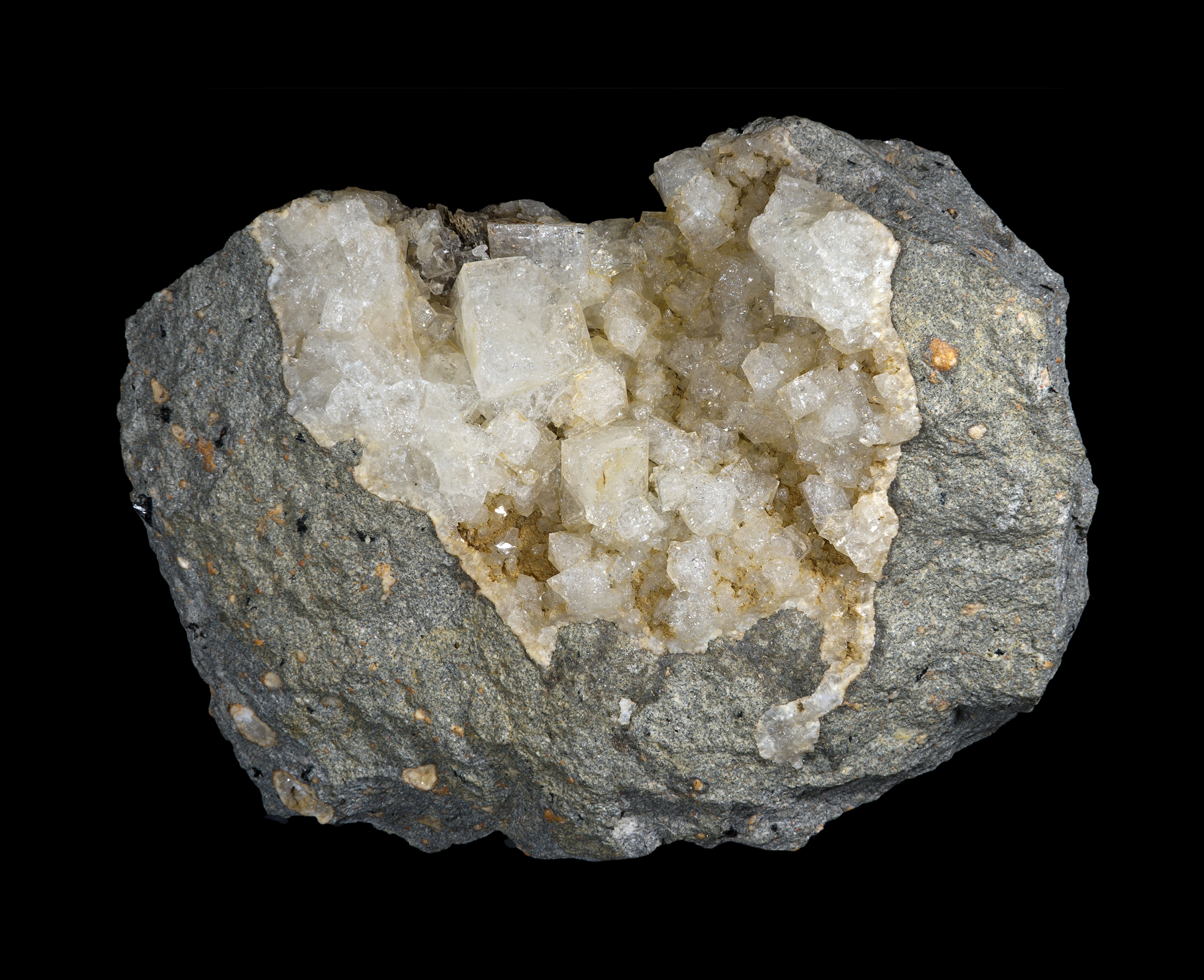 Chabazite-Ca Locality : Řepčice (Rübendörfl), Třebušín, Ústí Region, Bohemia, Czech Republic Size : 72x54x30 mm